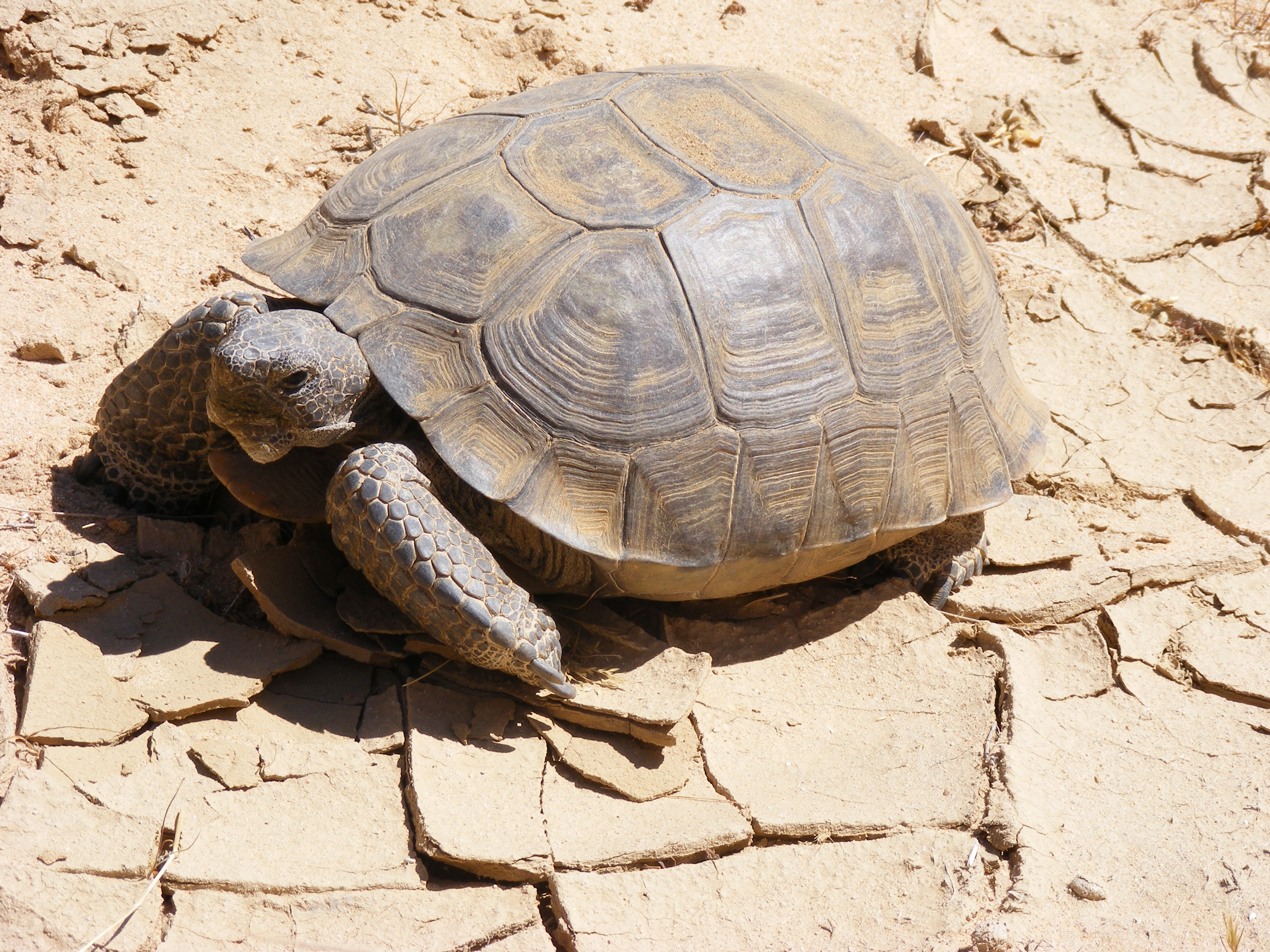 Gopherus agassizii — Desert tortoise. Photographed in the Mojave Desert, southern California.